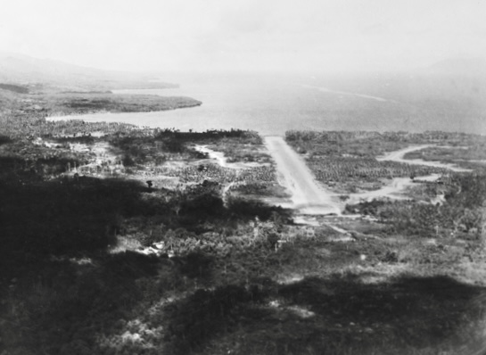 View of No. 3 Strip at Milne Bay, New Guinea, with Stephen's Ridge in the foreground.